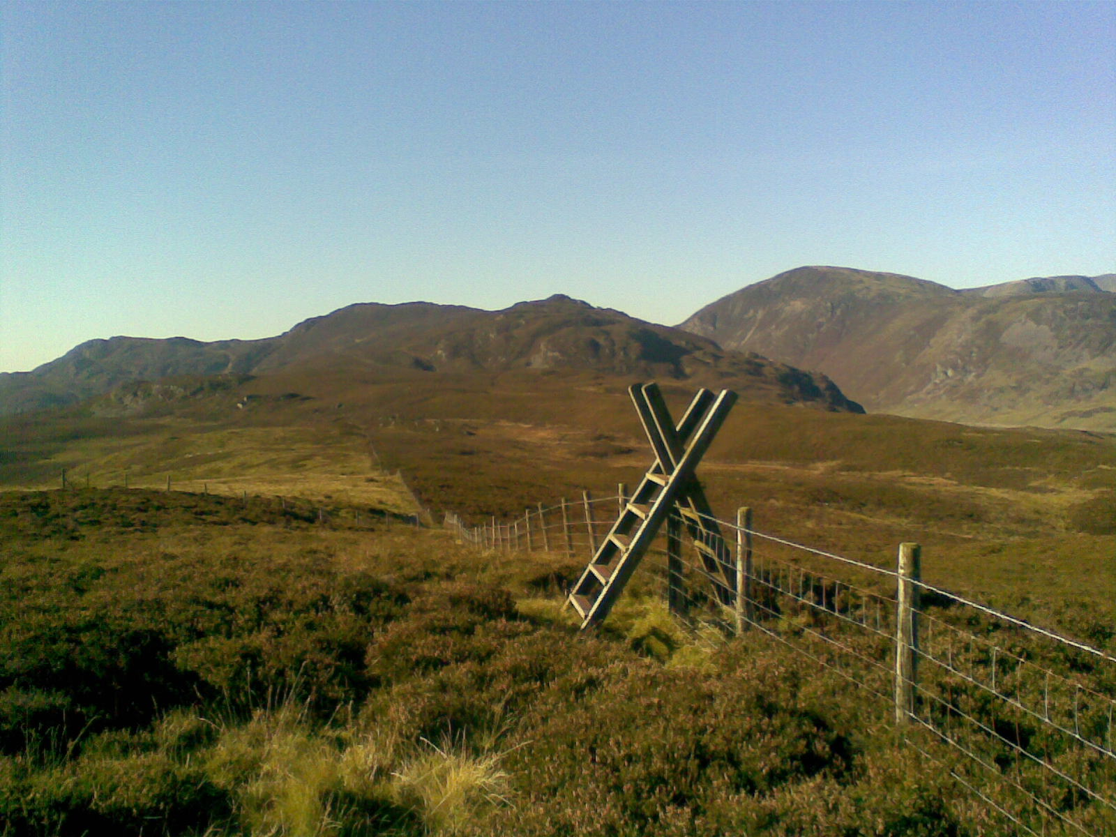 A style on Cefn Cyfarwydd. Looking south.